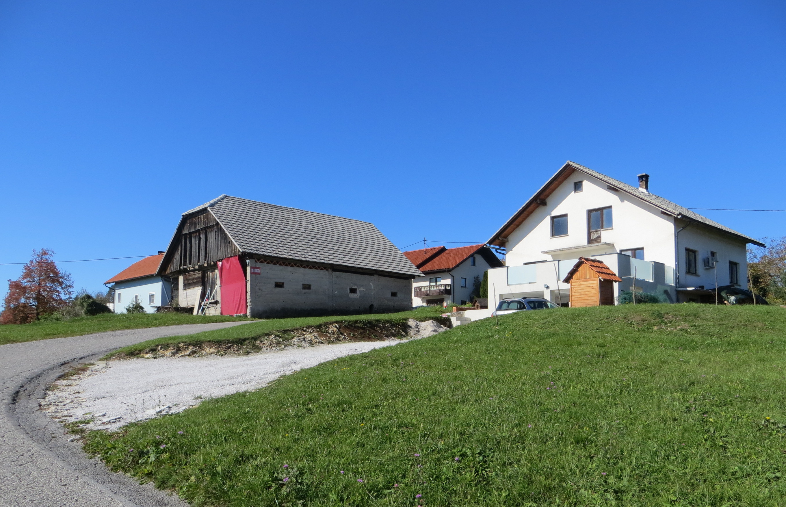 Mala Goričica, Municipality of Ivančna Gorica, Slovenia